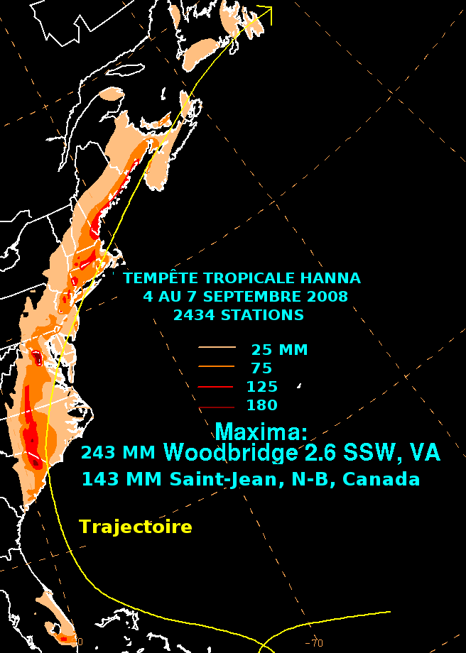 Storm total rainfall for Hanna in the United States and Canada